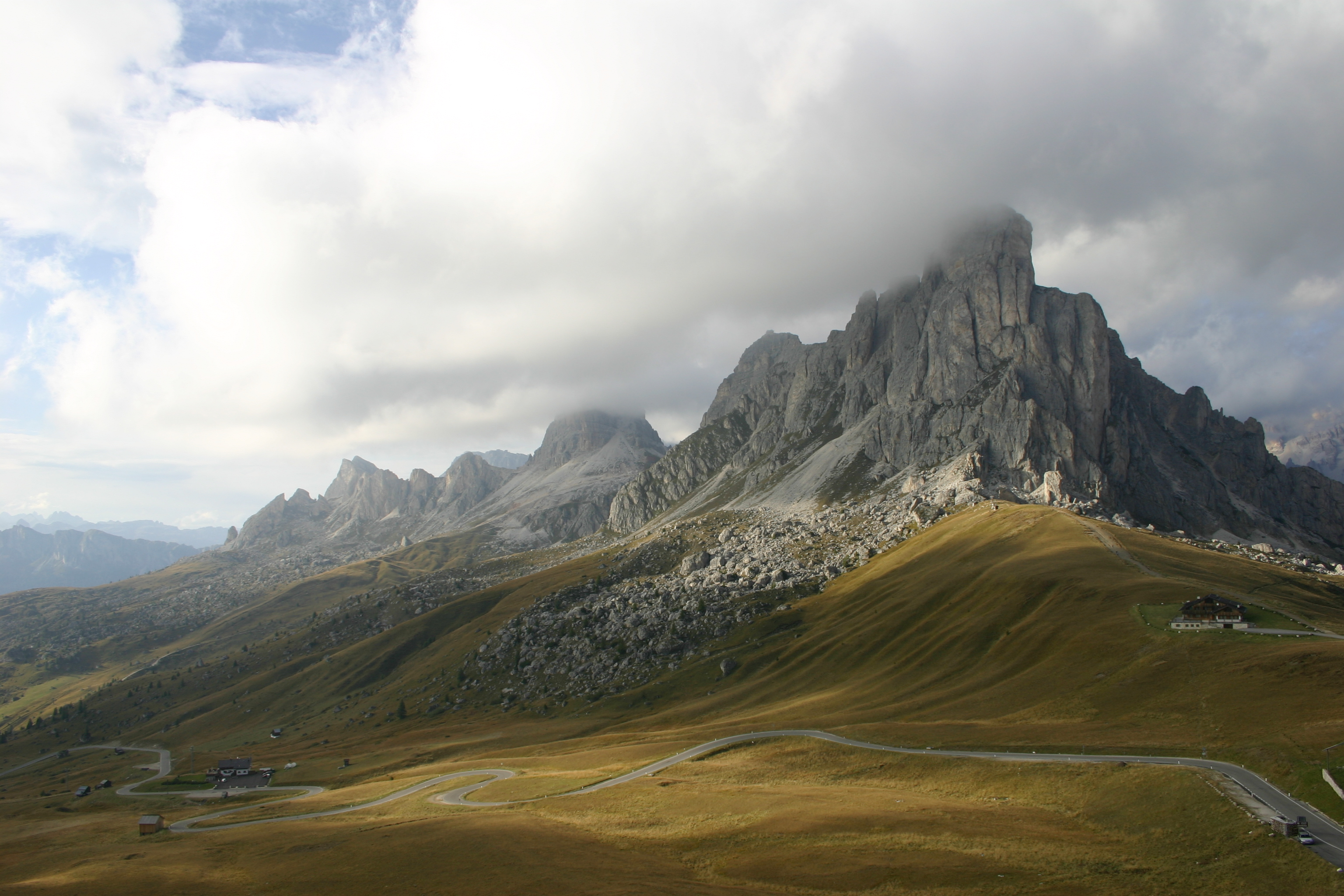 Giau Pass in the Dolomites, Italy, southern access, in the foreground Gusela, in the background Monte Nuvolau with the hut and Monte Averau with its peak in clouds.